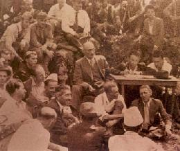 Mukje Conference (agreement) 1943, Albania